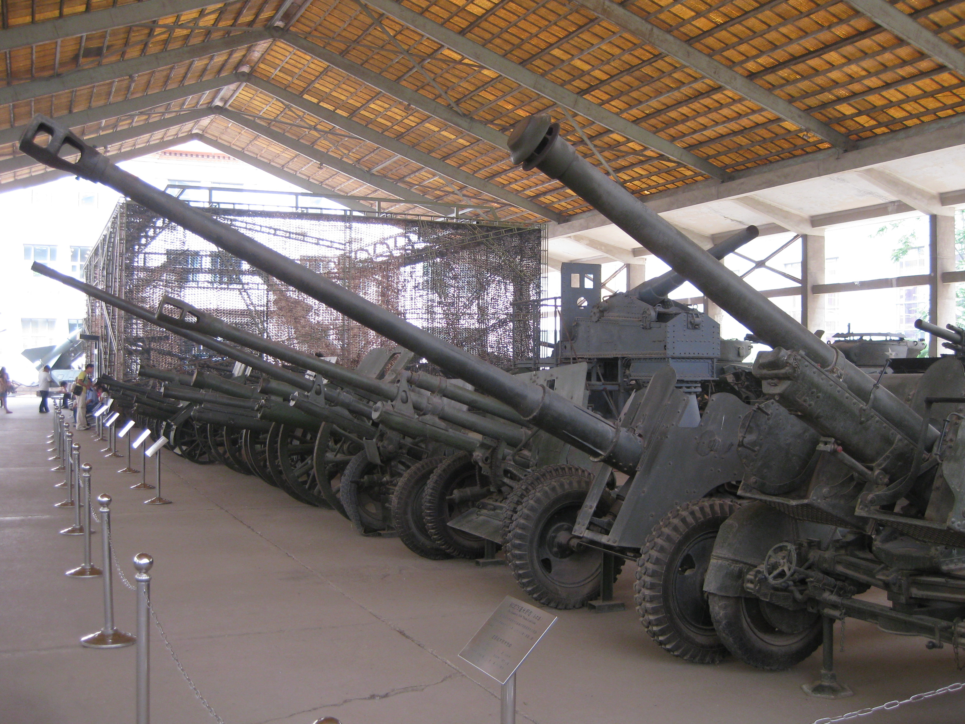 Mostly Soviet designs, e.g. ZIS-3 and some 85-mm divisional gun